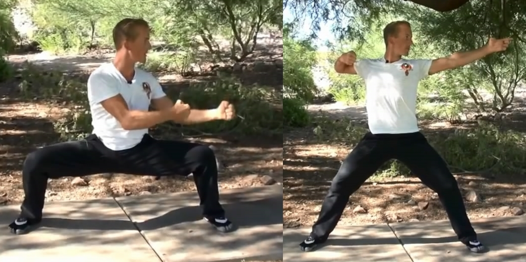 menarik busur